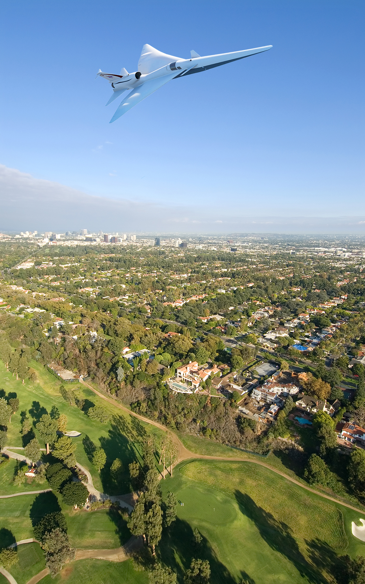 NASA awards a contract for the design, building and testing of a supersonic aircraft to Lockheed Martin Aeronautics Company of Palmdale, California.